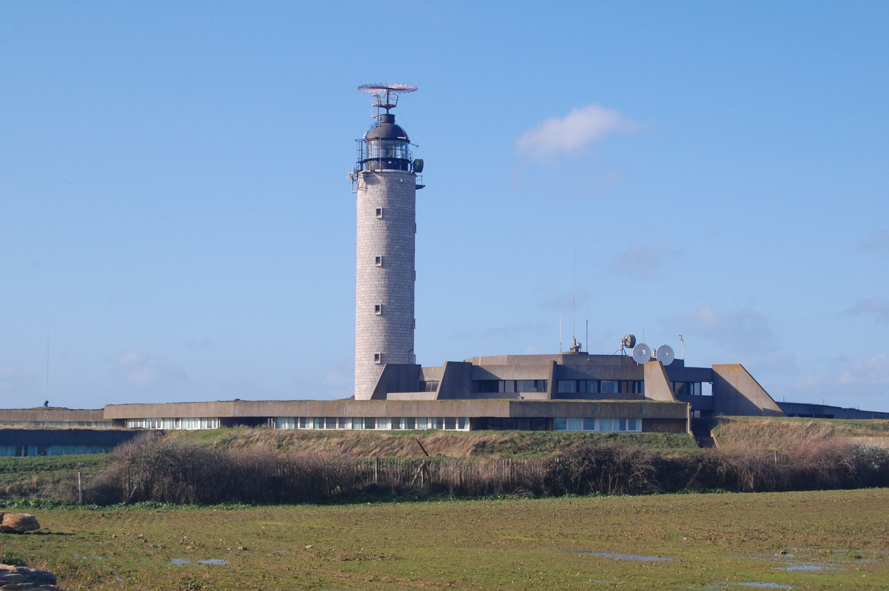 Cap Griz-Nez Lighthouse, Pas de Calais, France